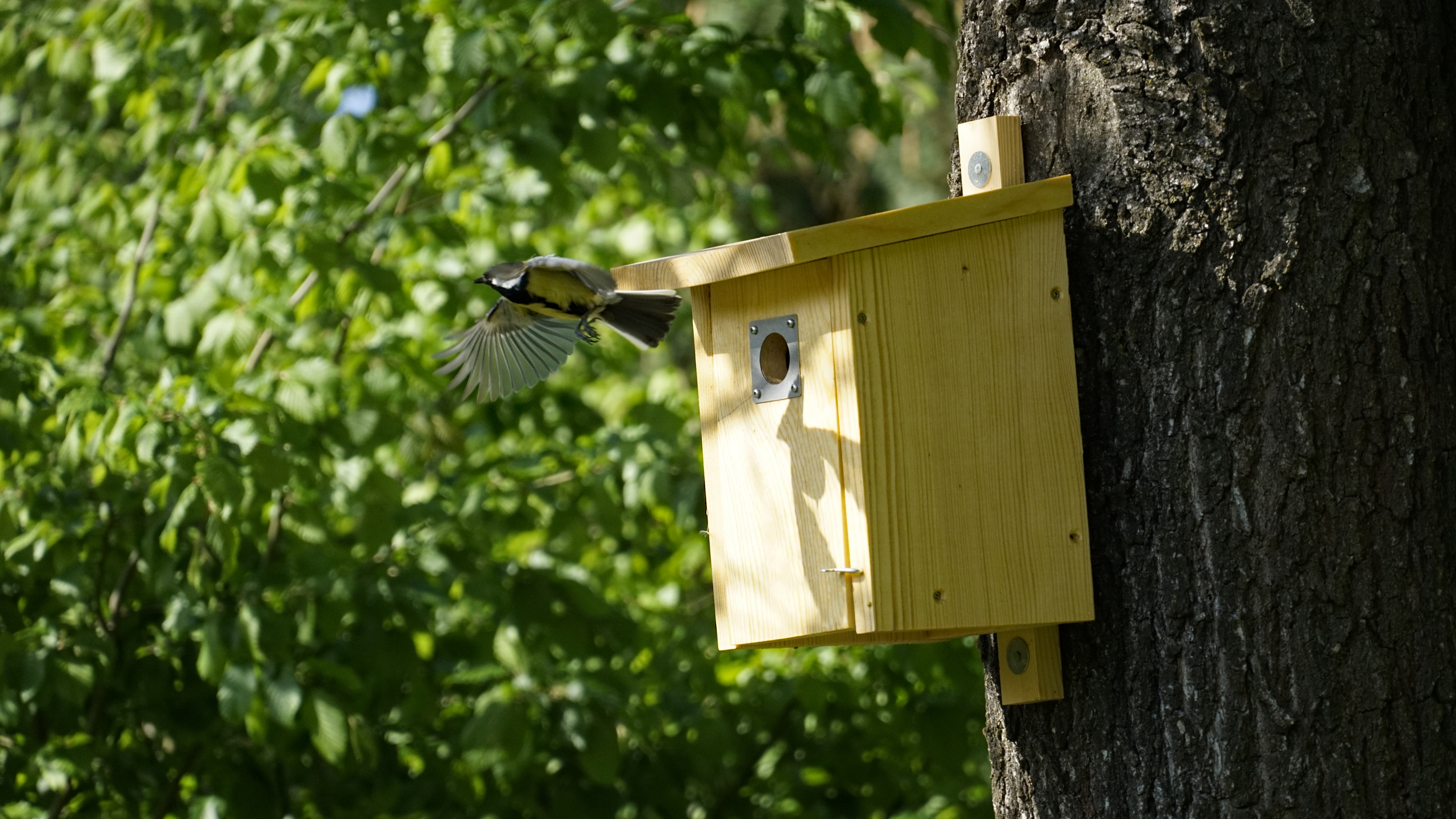 Nestbox with great tit in flight